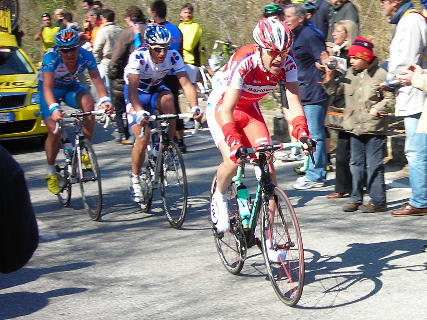 Giampaolo Cheula, Cristophe Le Mevel, Sebastien Turgot (from right to left)